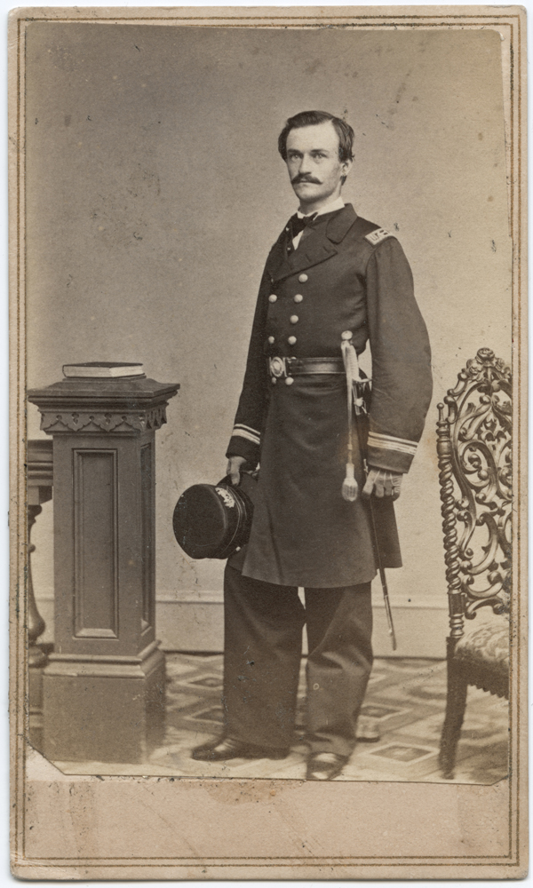 Title: [Officer, Union Army] Creator: Gardner, Alexander, 1821-1882 Date: 1861-1865 Part Of: Gardner cartes de visite and portraits Place: Washington, D.C. Physical Description: 1 photographic print on carte de visite mount: albumen; 10 x 6 cm. File: ag2005_0004_08c_officer_opt.jpg Rights: Please cite DeGolyer Library, Southern Methodist University when using this file. A high-resolution version of this file may be obtained for a fee. For details see the web page. For other information, . For more information and to view the image in high resolution, View the Civil War